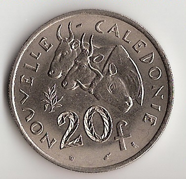 20 pacific Francs (New Caledonia)